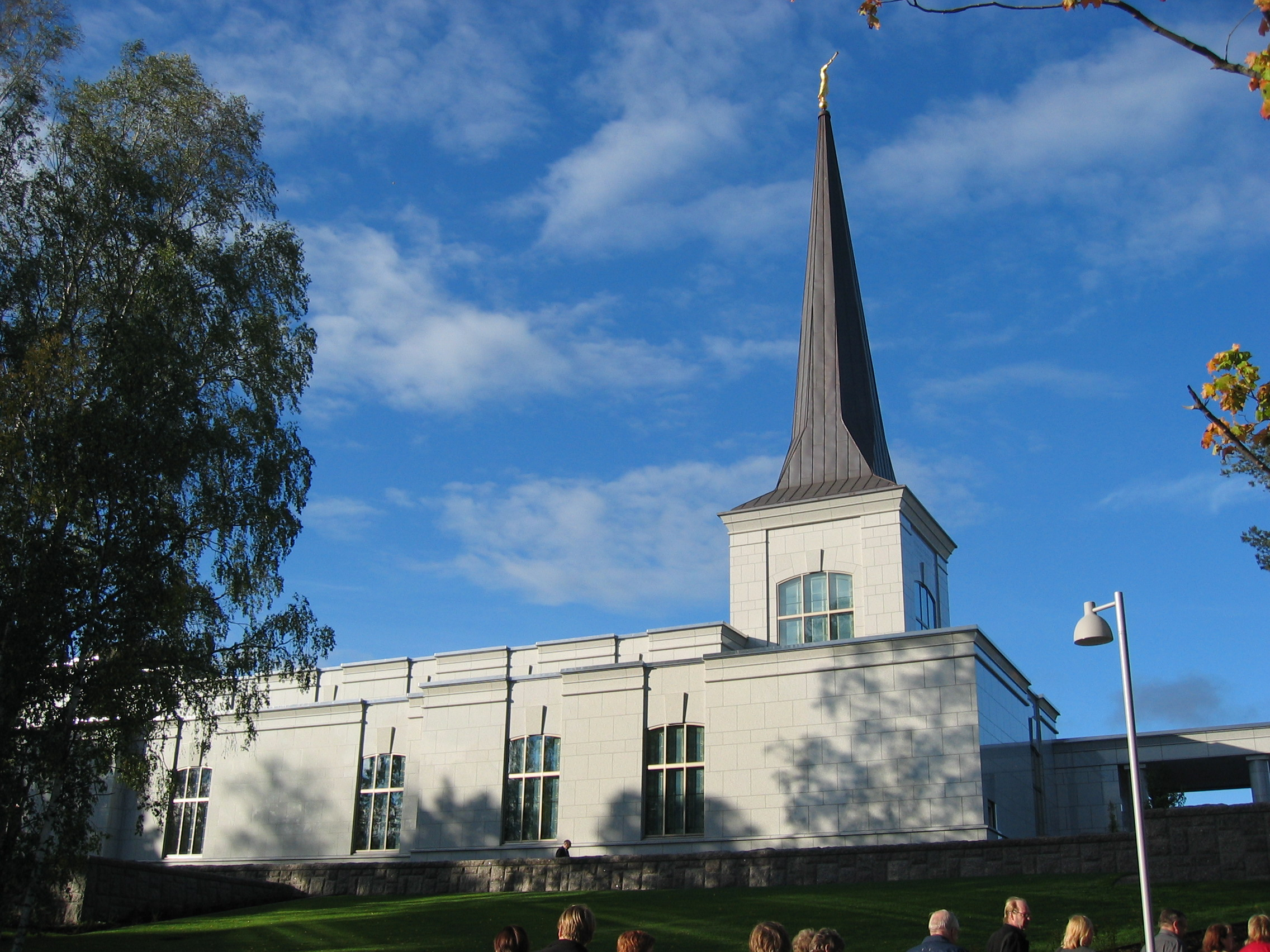 Helsinki Temple, The Church of Jesus Christ of Latter-day Saints